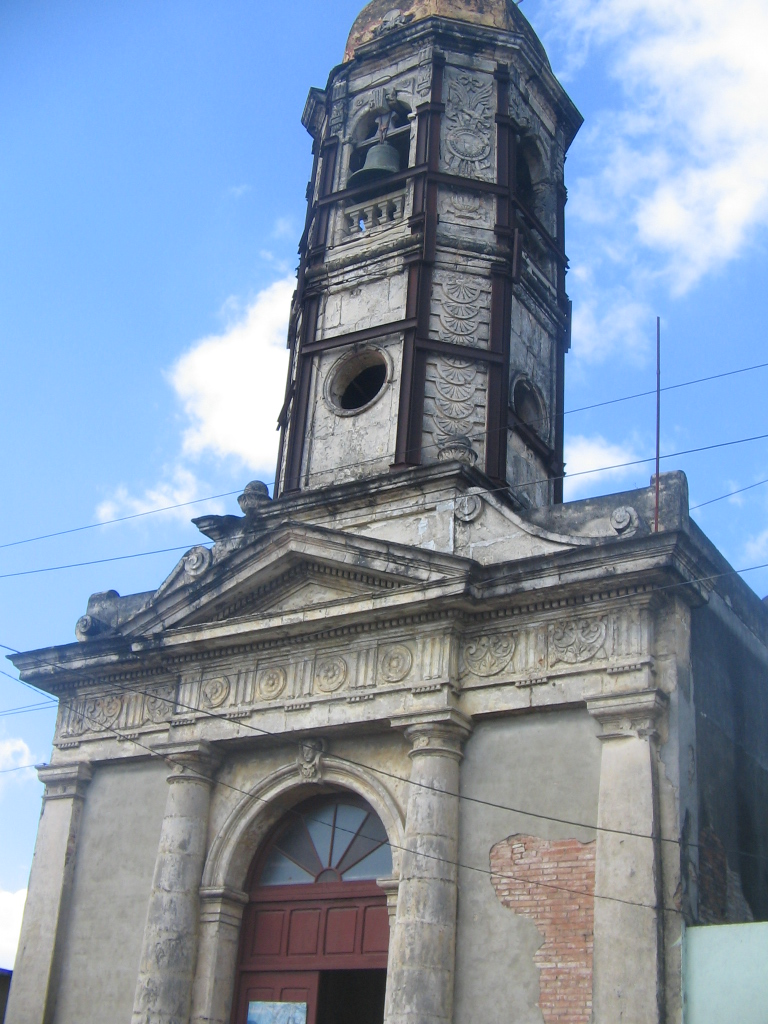 View of the town's church and its tower in the central square of Palmira (Cienfuegos Province, Cuba).